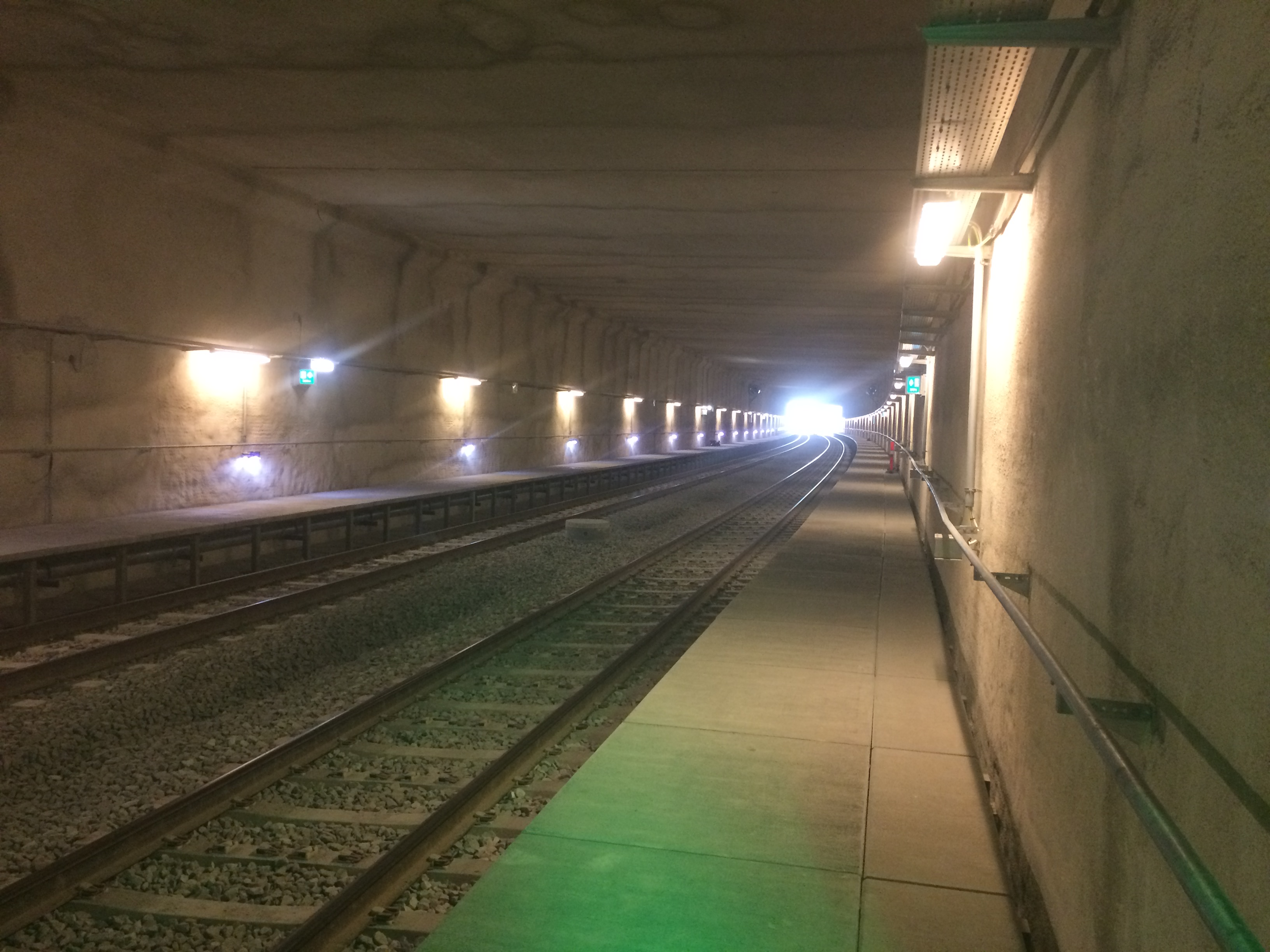 København-Køge-Ringsted-banen - Hvidovretunnelen in 2017 before opening